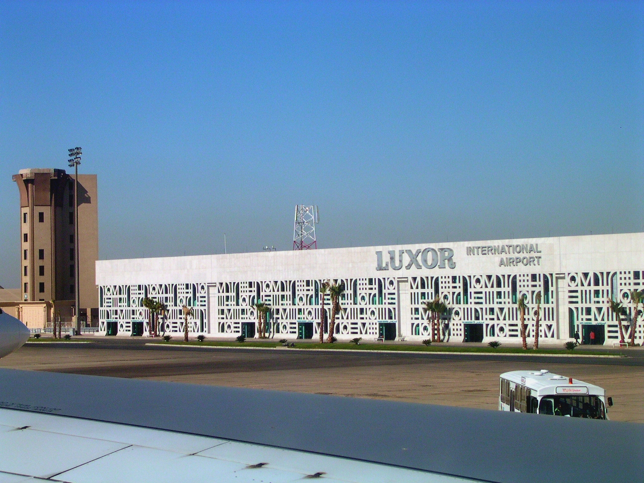 Luxor International Airport, taken in February 2007